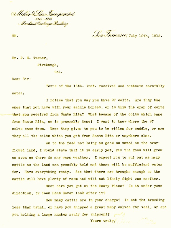 This is the correspondence between Henry Miller and his Superintendent Turner. It is used to demonstrate the micromanagement style of Henry Miller.